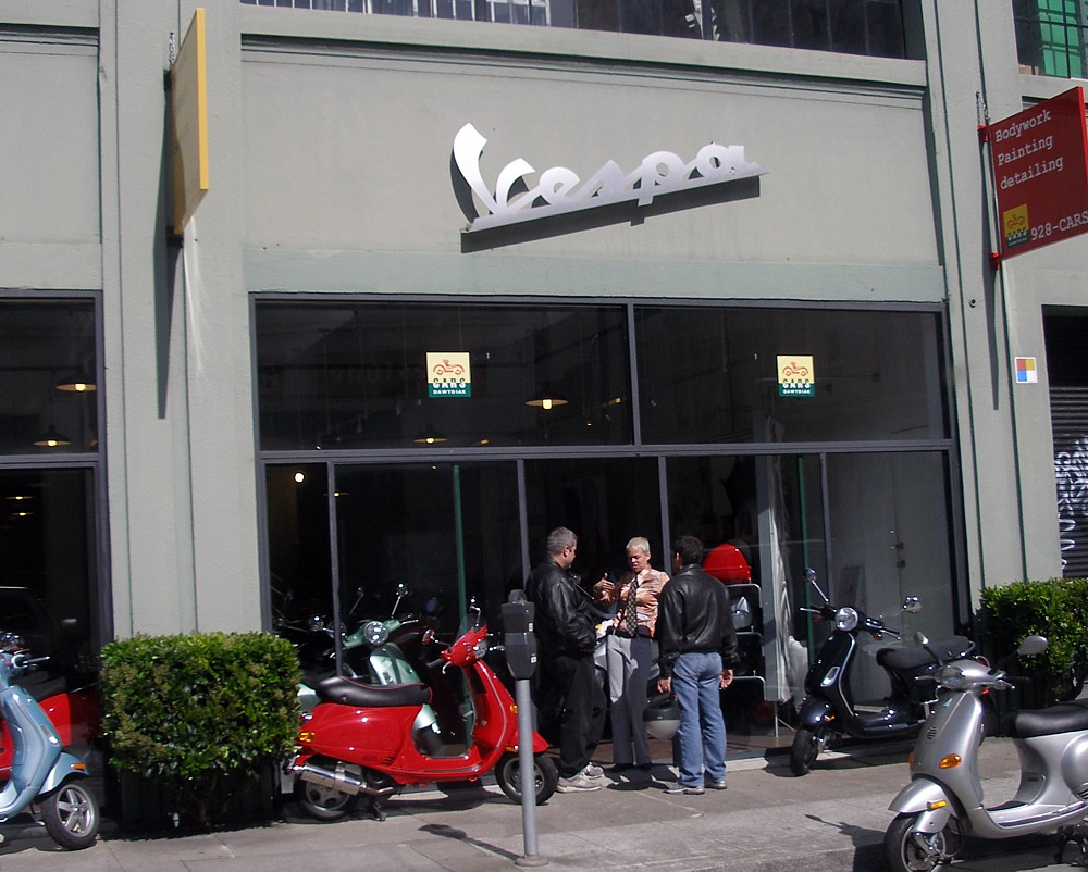 A Vespa scooter dealership in San Francisco, California. This particular one faces U.S. Highway 101, which traverses the city as Van Ness Avenue, an arterial road. Photographed by user Coolcaesar on May 6, en:2006.